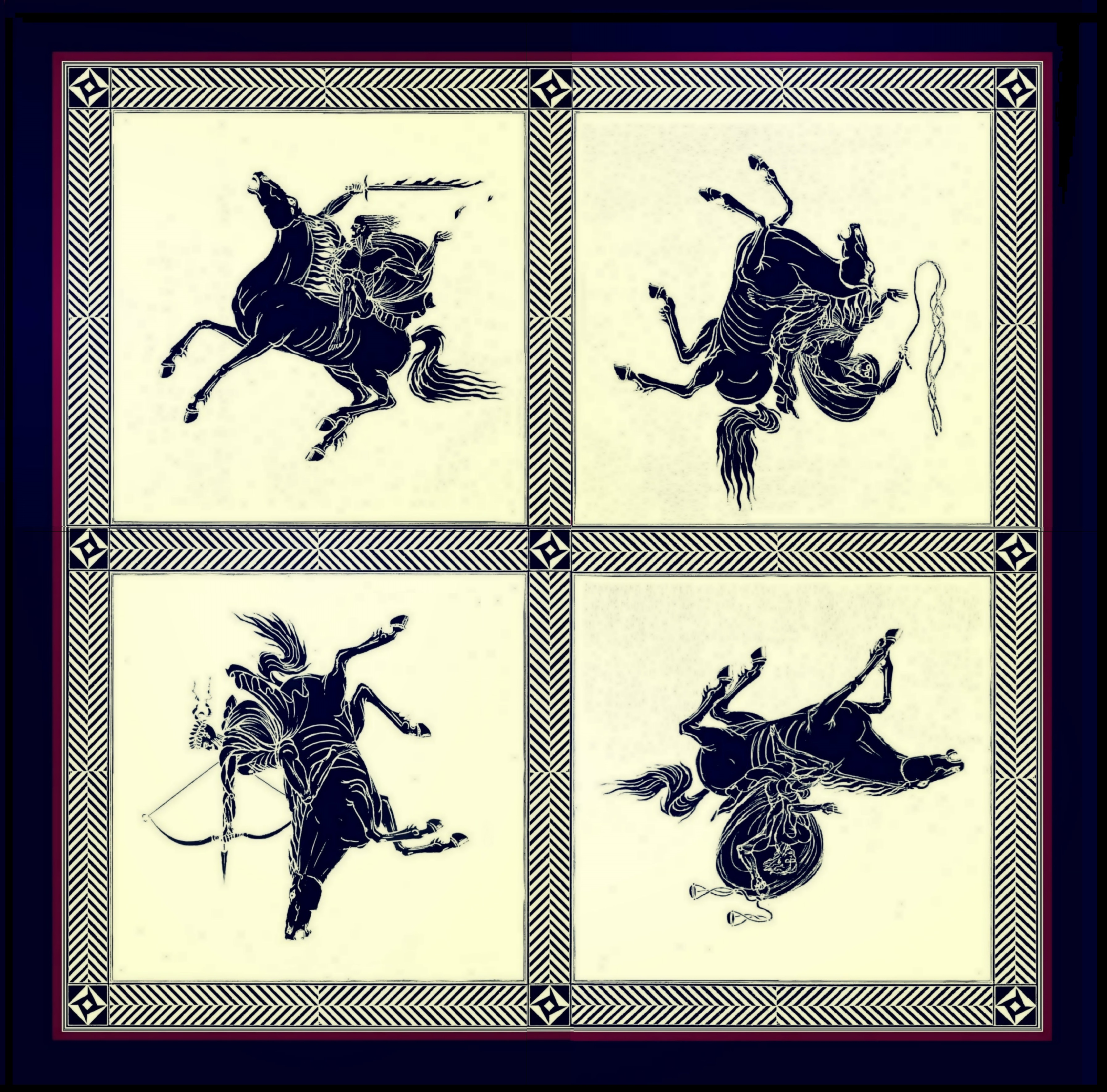 Four Horsemen of the Apocalypse, by Arnaldo Dell'Ira (1903-1943), project of mosaic for a School of War, 1939-1940. Livorno, Italy, Archivio Dell'Ira.